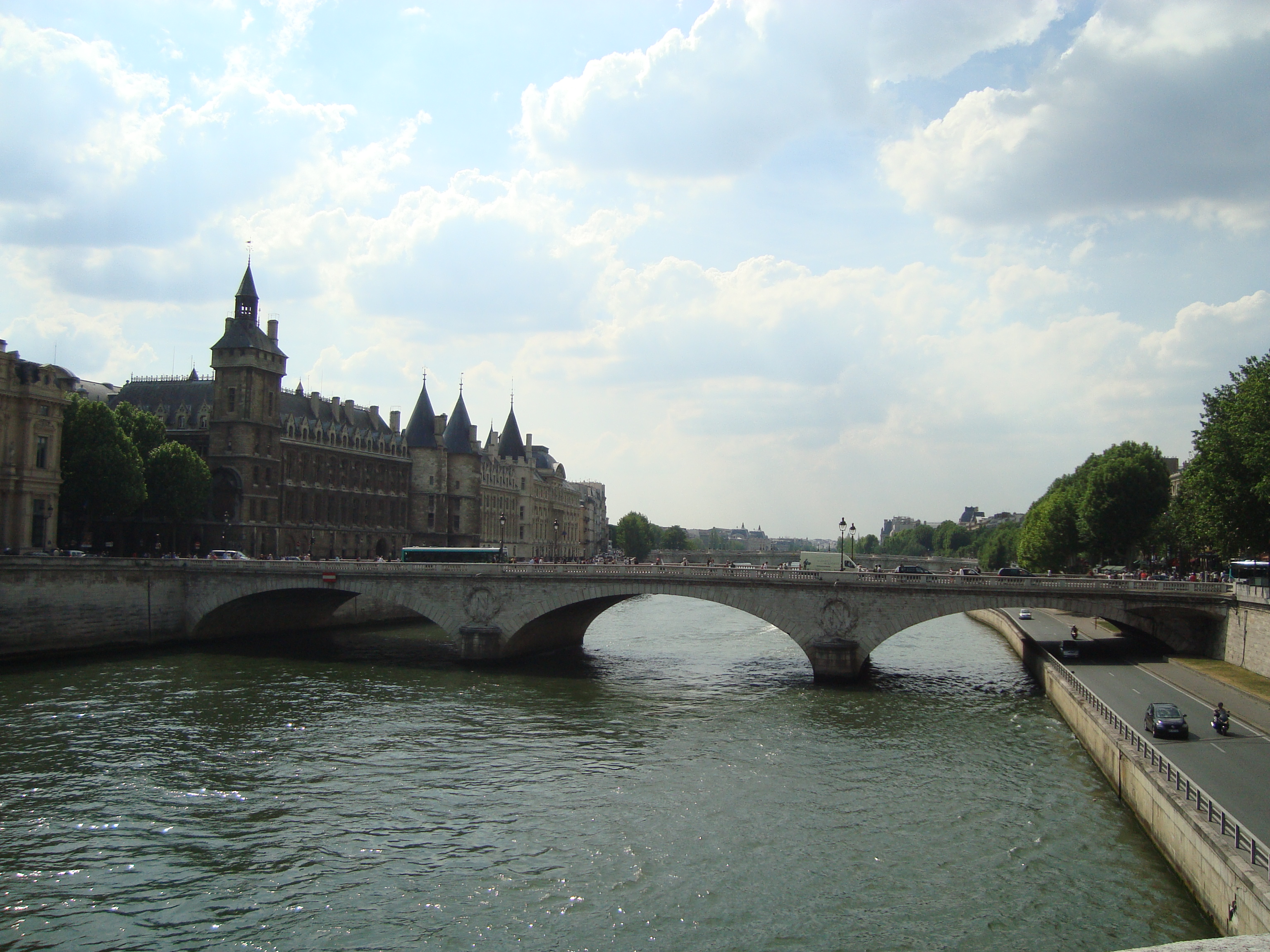 View of the pont au Change in Paris with the Conciergerie on the left